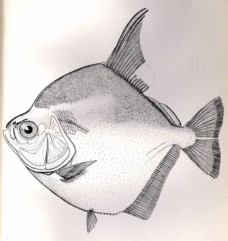 Metynnis gnaporensis Eigenmann. Type. C.M. No.5729. 99 mm. Maciel, Rio Guapore Subject: Characidae Tag: Fish